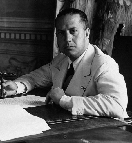 Count Galeazzo Ciano, Mussolini's foreign minister and son-in-law at his desk in Palazzo Chigi, Rome in 1937.